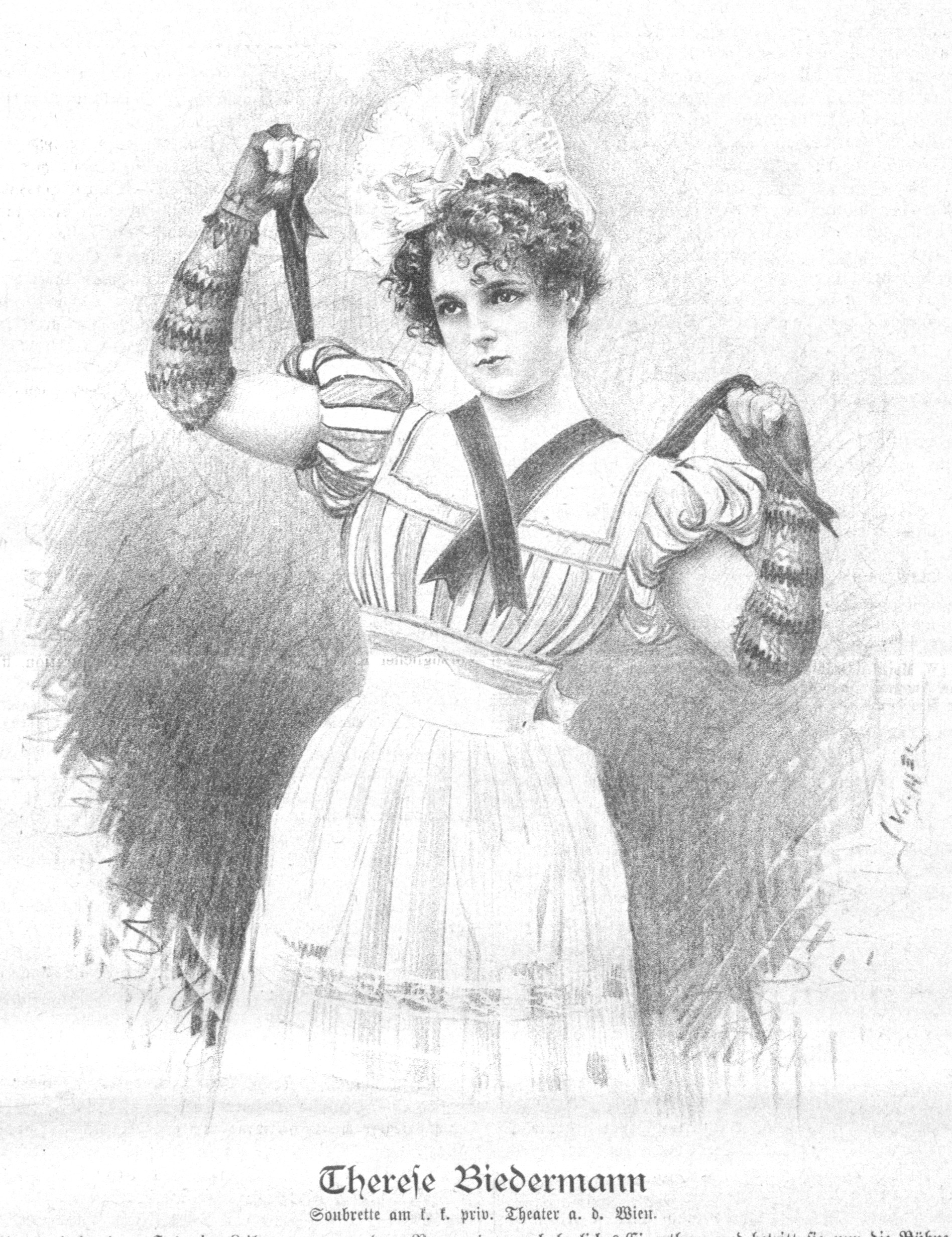 Portrait of Therese Biedermann (1863-1945), Austrian actress